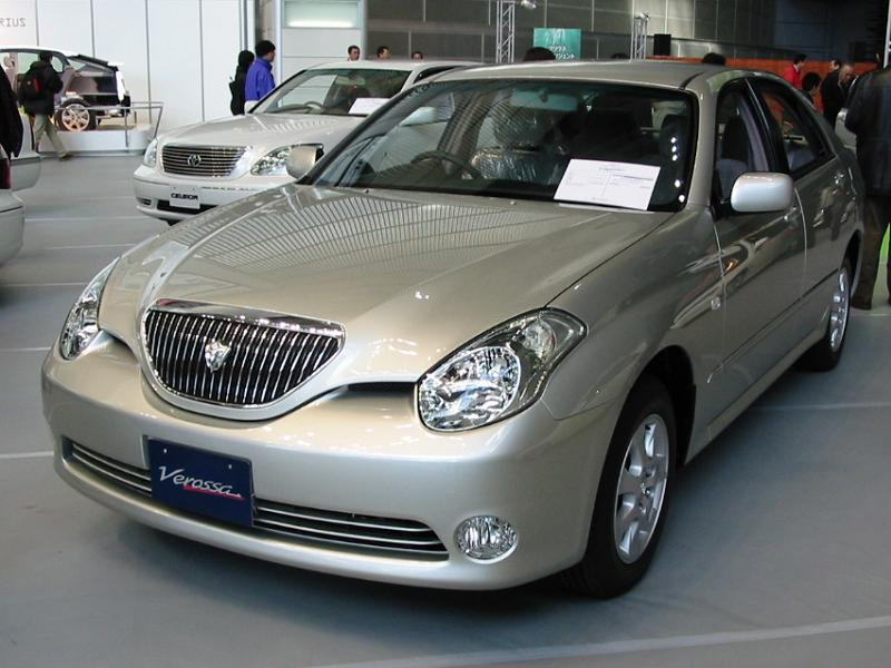 The Toyota Verossa (exceed) taken in the all toyota Motor Show in Saitama, Japan on February 7, 2004